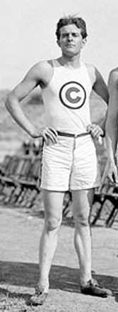 Lacey Hearn, athlete, medalwinner at the 1904 Olympic Games photography, adapted reproduction, no restrictions on use Copyright: free of charges